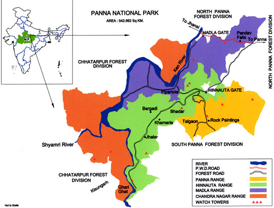 Map of Panna National Park showing rivers, roads, ranges, gates and watchtowers. six colors, no scale